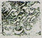 Bahman Mirza's seal with his title "Unique Juwel of the Imperial Ocean, Bahman".